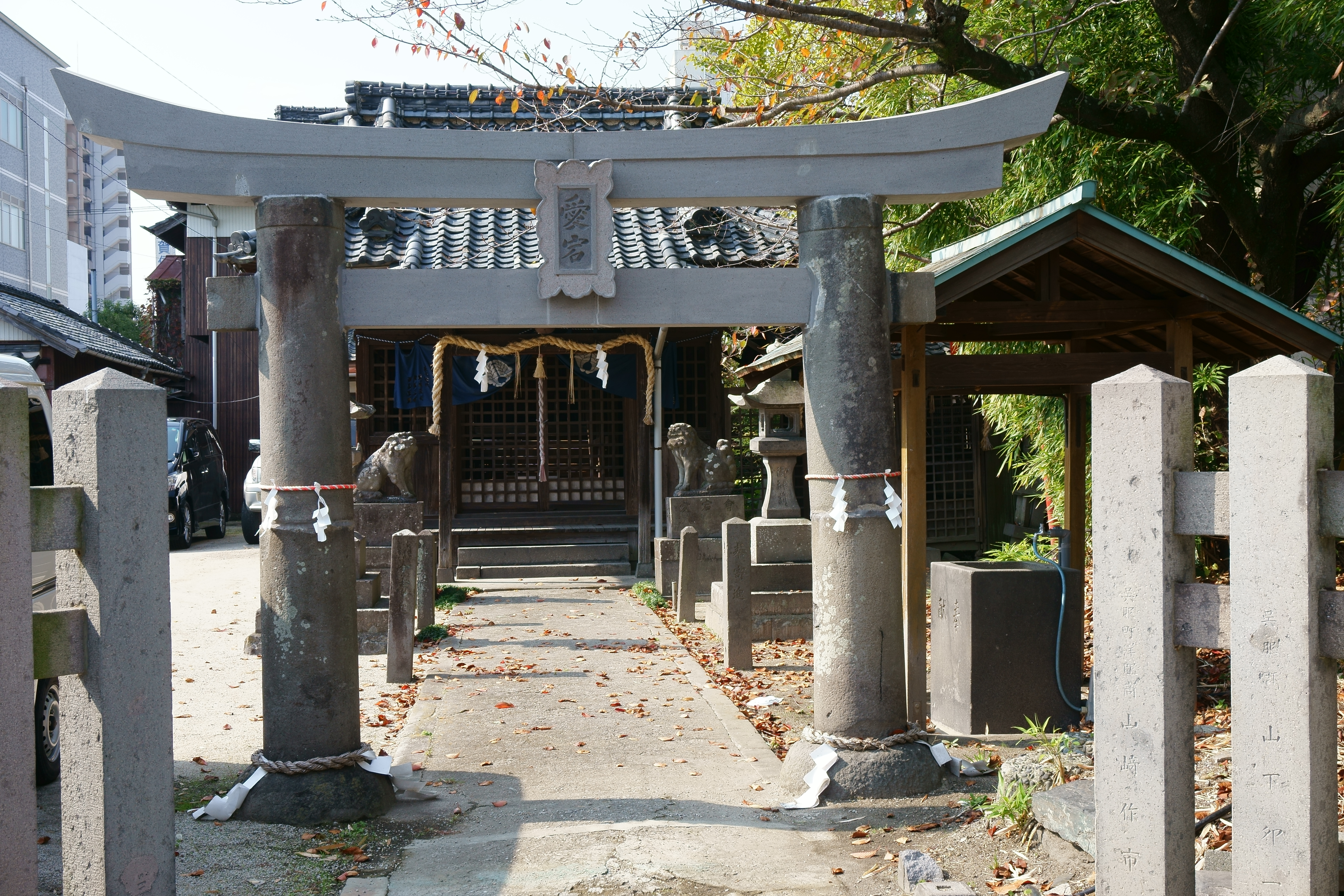 Atago Shine in Gofukumotomachi, Saga city, Saga prefrecture. The Torii collapsed by 2016 Kumamoto earthquake damage and rebuild in 2017.